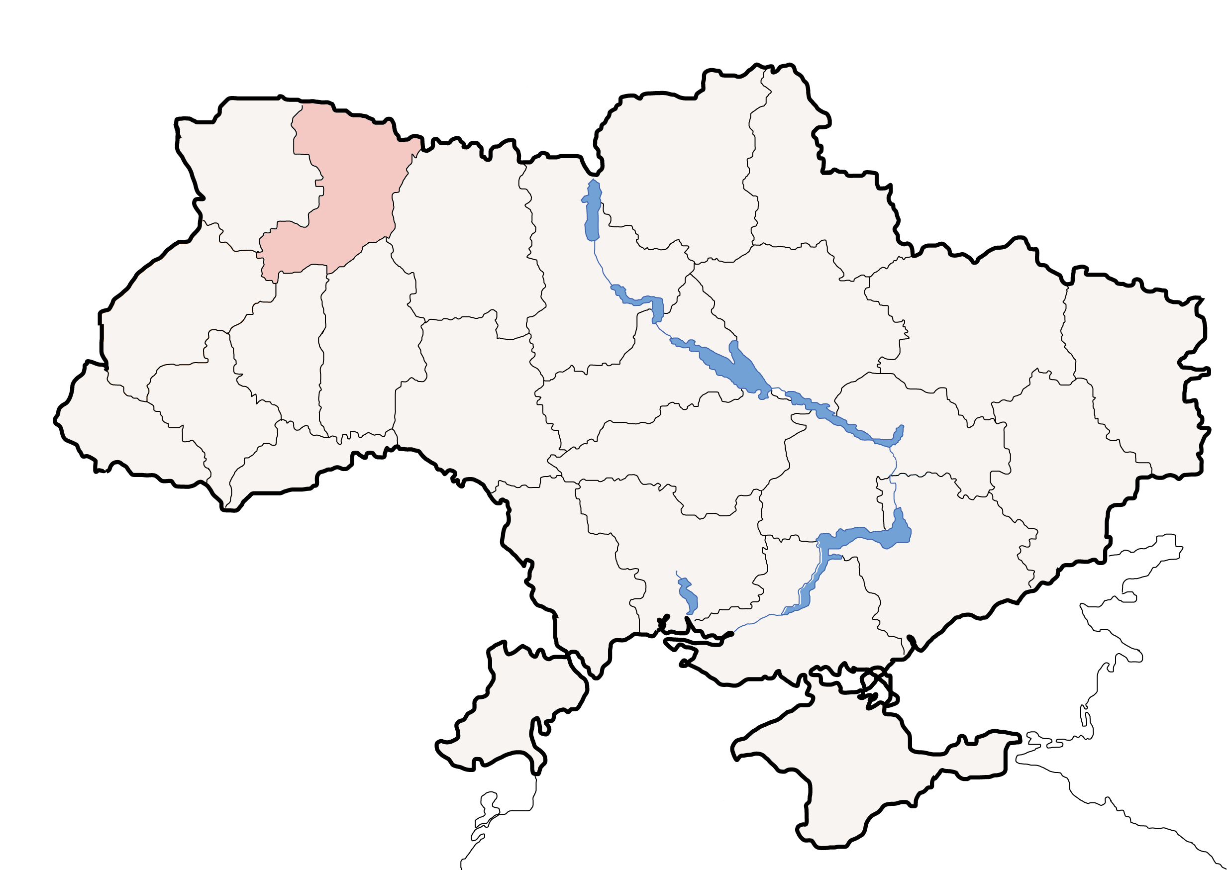 Political map of Ukraine, highlighting Rivne Oblast